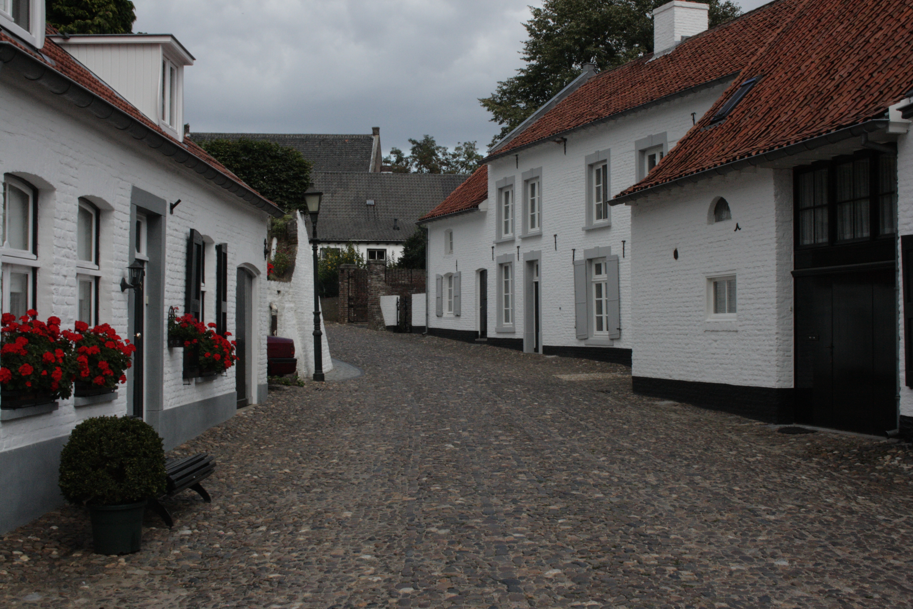 Steetview of Thorn